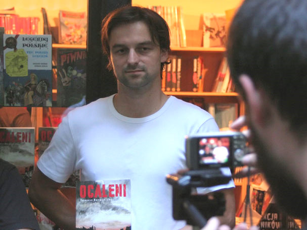 Tomasz Bereznicki - Polish comic book writer, painter and graphic designer. Picture taken during a meeting at Fankomiks bookstore in Cracow on the occasion of publication of 'Ocaleni' (